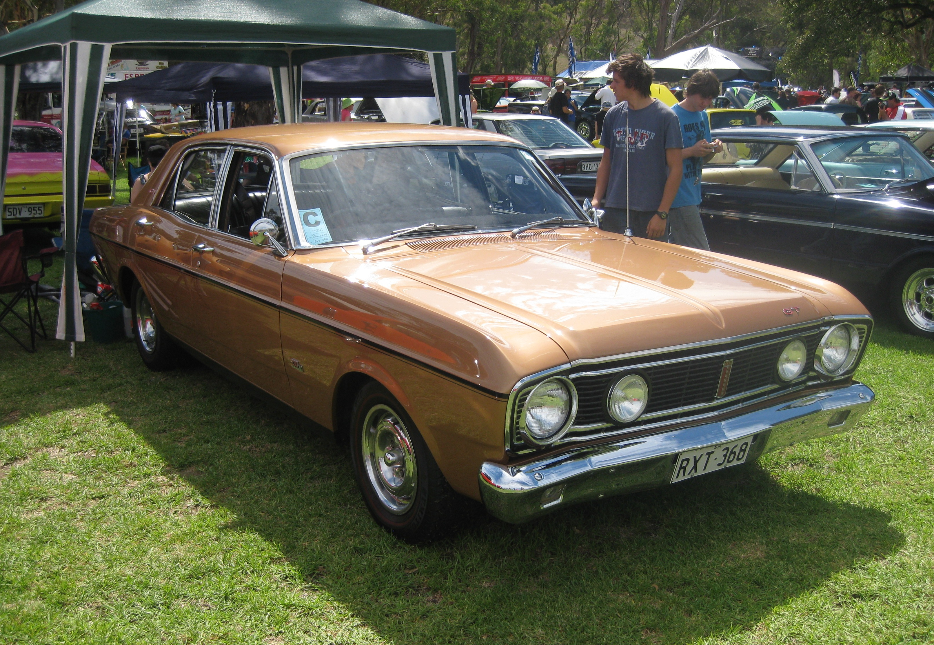 Ford XT Falcon GT (1968-69)